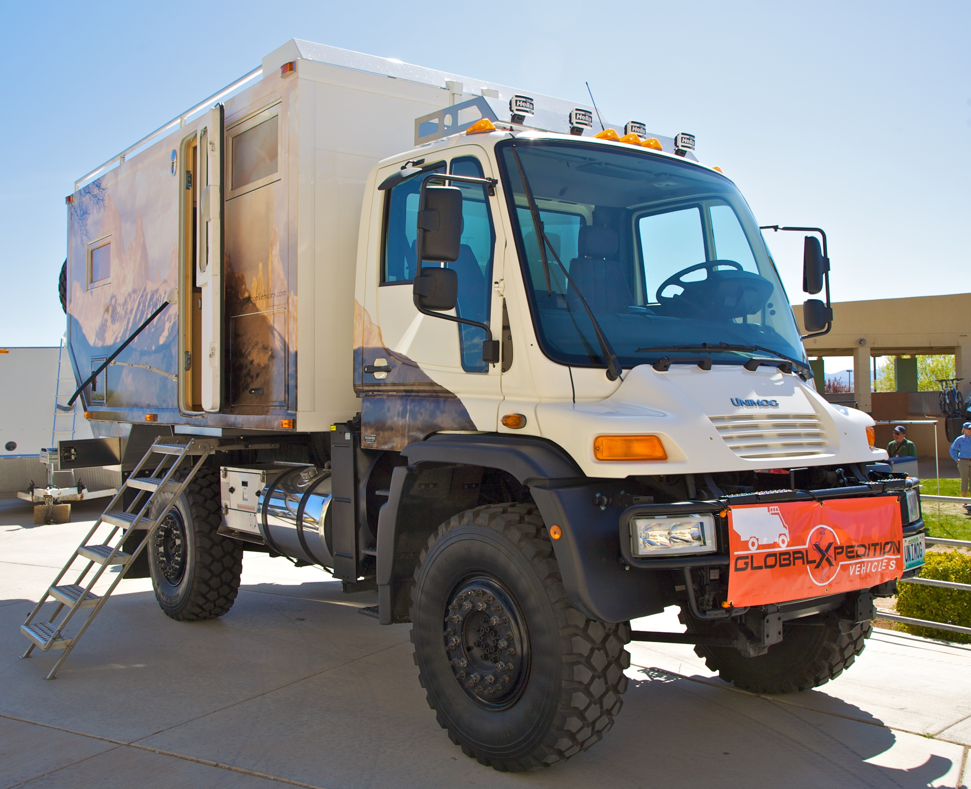 Global Expedition Vehicles Safari Extreme Freightliner Unimog U500.